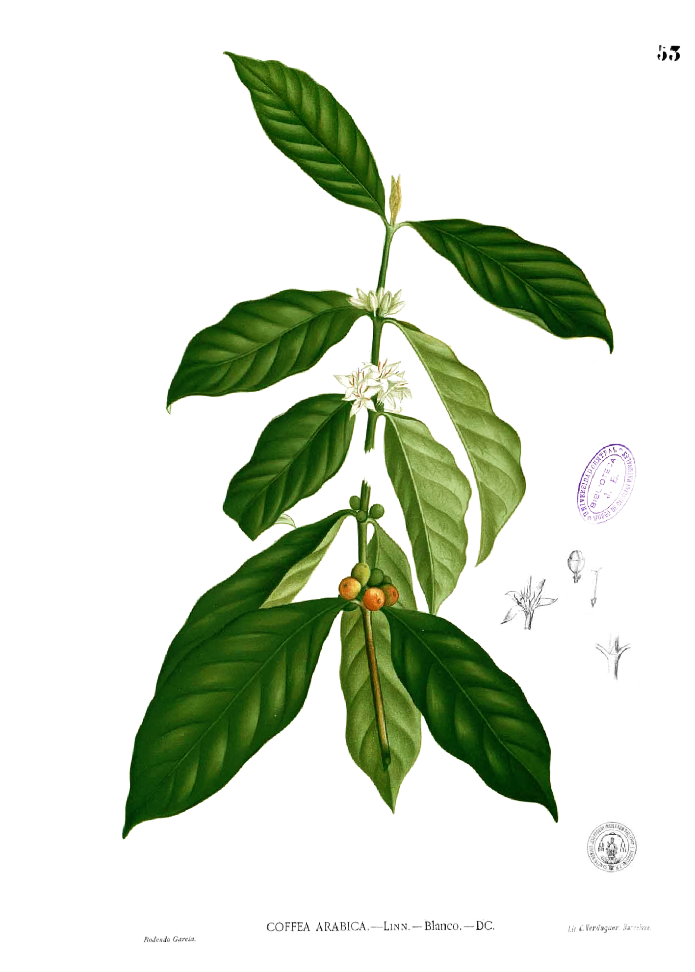 Plate from book